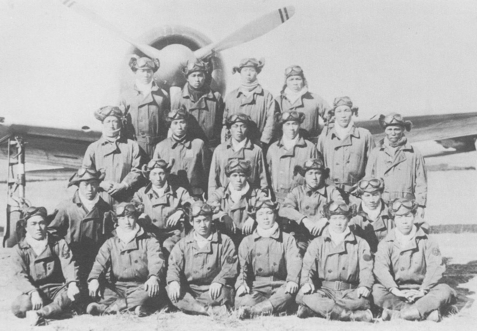 A group photograph of pilots from the Imperial Japanese Navy aircraft carrier Shokaku's fighter squadron shortly before the ship departed to participate in the December 1941 attack on Pearl Harbor. Front row, from the left: Ichiro Yamamoto, Masao Sasakibara. Second row, from the left: second person, Masao Iizuka, Takumi Hoashi, and Yasujiro Abe. Third row, from the right: second person, Sadamu Komachi, Kenji Okabe. Rear row, from left: second person, Yoshimi Minami.